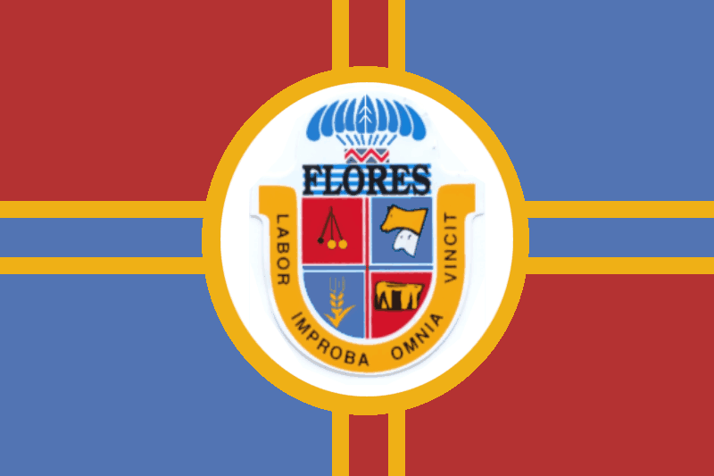 Flag of the Department of Flores, Uruguay